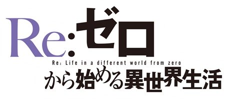 Re:Zero kara Hajimeru Isekai Seikatsu logo